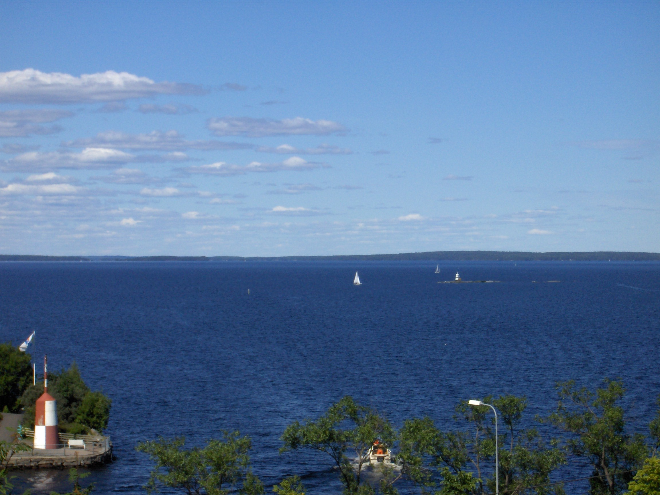 Näsijärvi lake in Tampere, Finland